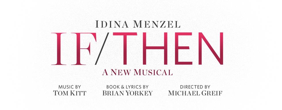 Current official logo for the If/Then musical.